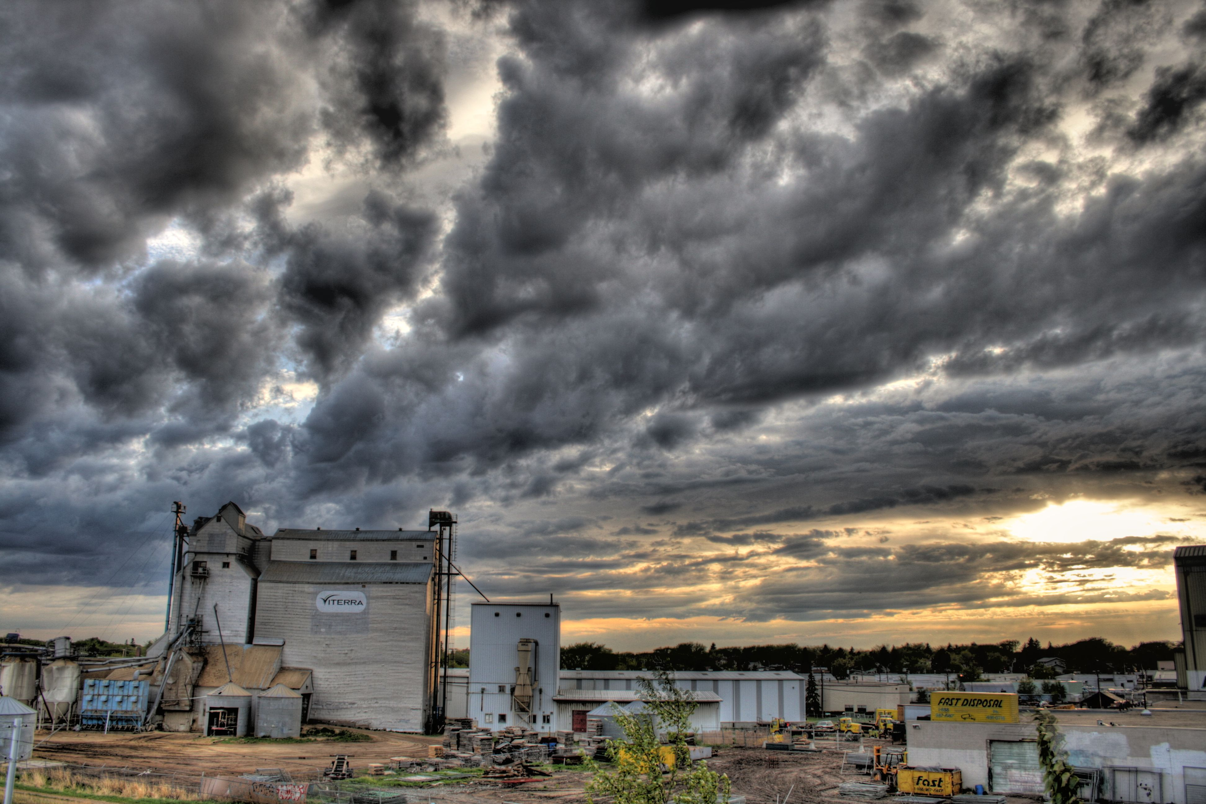 East view of the Viterra plant site, Edmonton, Alberta, Canada.